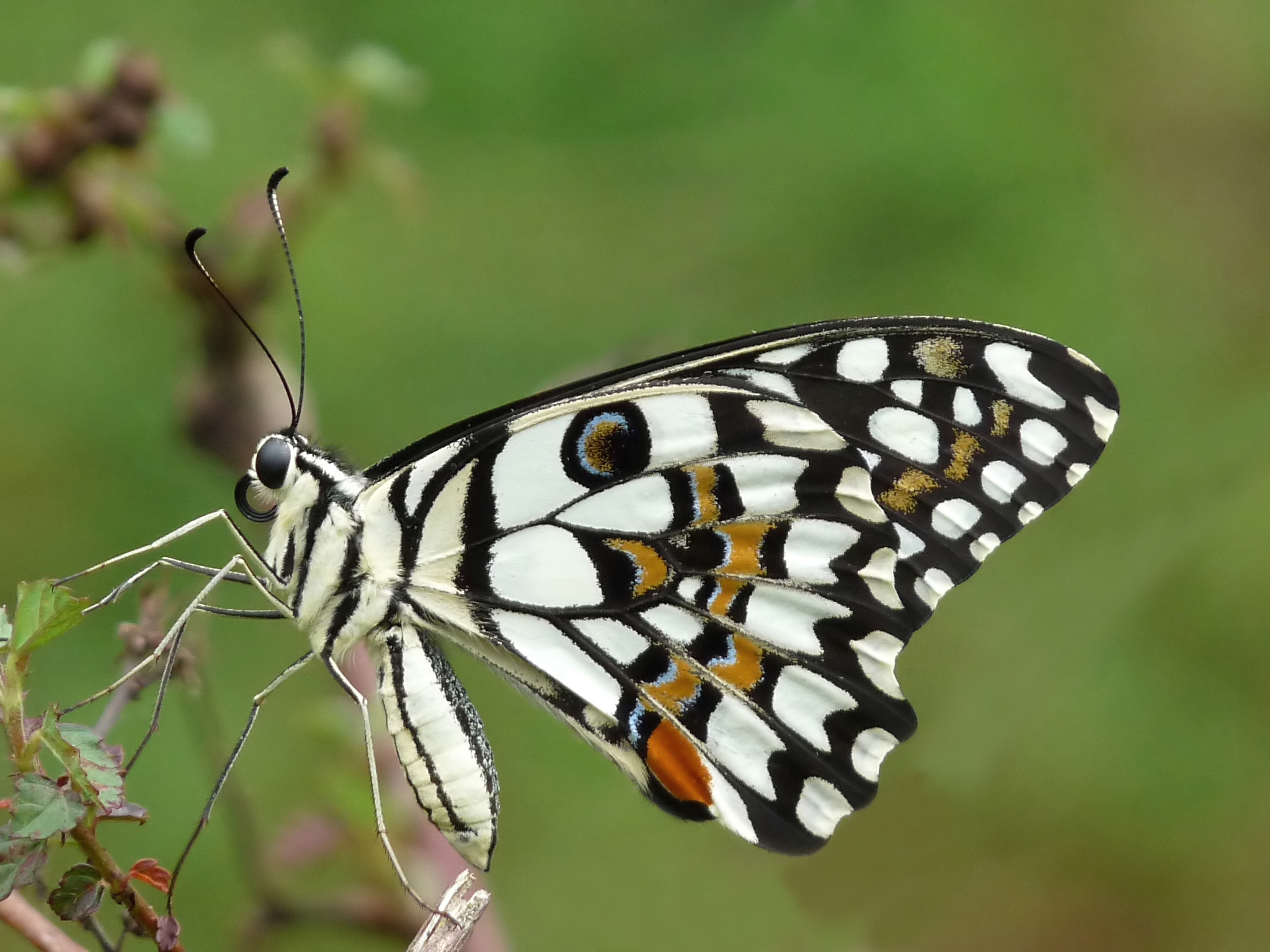 Papilio demoleus, is a common and widespread swallowtail butterfly. Common names include Common Lime Butterfly, Lemon Butterfly, Lime Swallowtail, Small Citrus Butterfly, Chequered Swallowtail, Dingy Swallowtail, and Citrus Swallowtail. It gets its common names from its host plants, which are usually citrus species such as the cultivated lime. Unlike most swallowtail butterflies, it does not have a prominent tail. The butterfly is a pest and invasive species from the Old World which has spread to the Caribbean and Central America. Taken at Kudayathoor, Kerala, India.